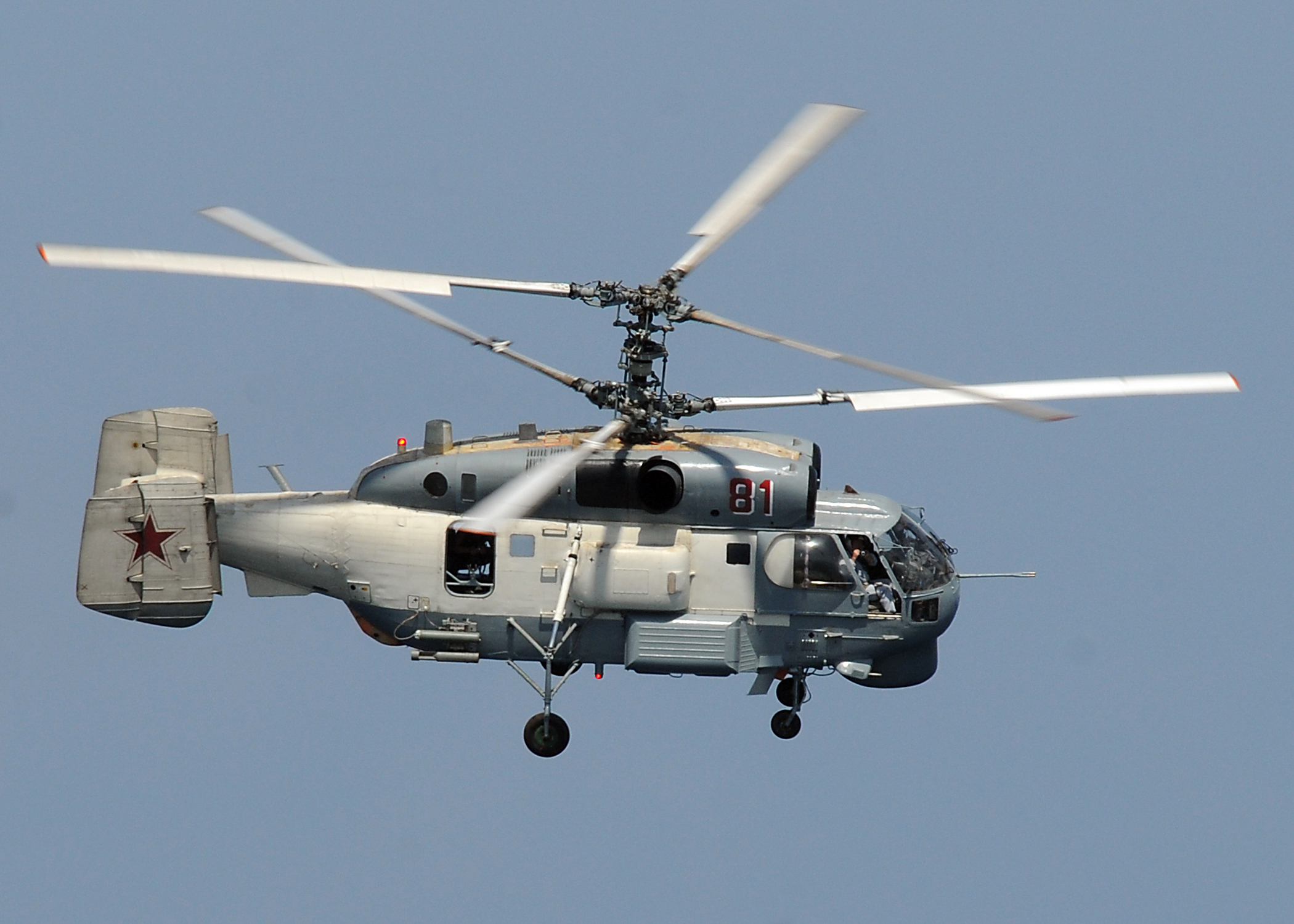 A Russian Helix Ka-27 helicopter assigned to the Russian destroyer Admiral Vinogradov (DDG 572) flies near the guided-missile cruiser USS Vella Gulf (CG 72) while conducting operations in the Gulf of Aden. Vella Gulf is the flagship for Combined Task Force 151, a multi-national task force conducting counterpiracy operations to detect and deter piracy in and around the Gulf of Aden, Persian Gulf, Indian Ocean and Red Sea.